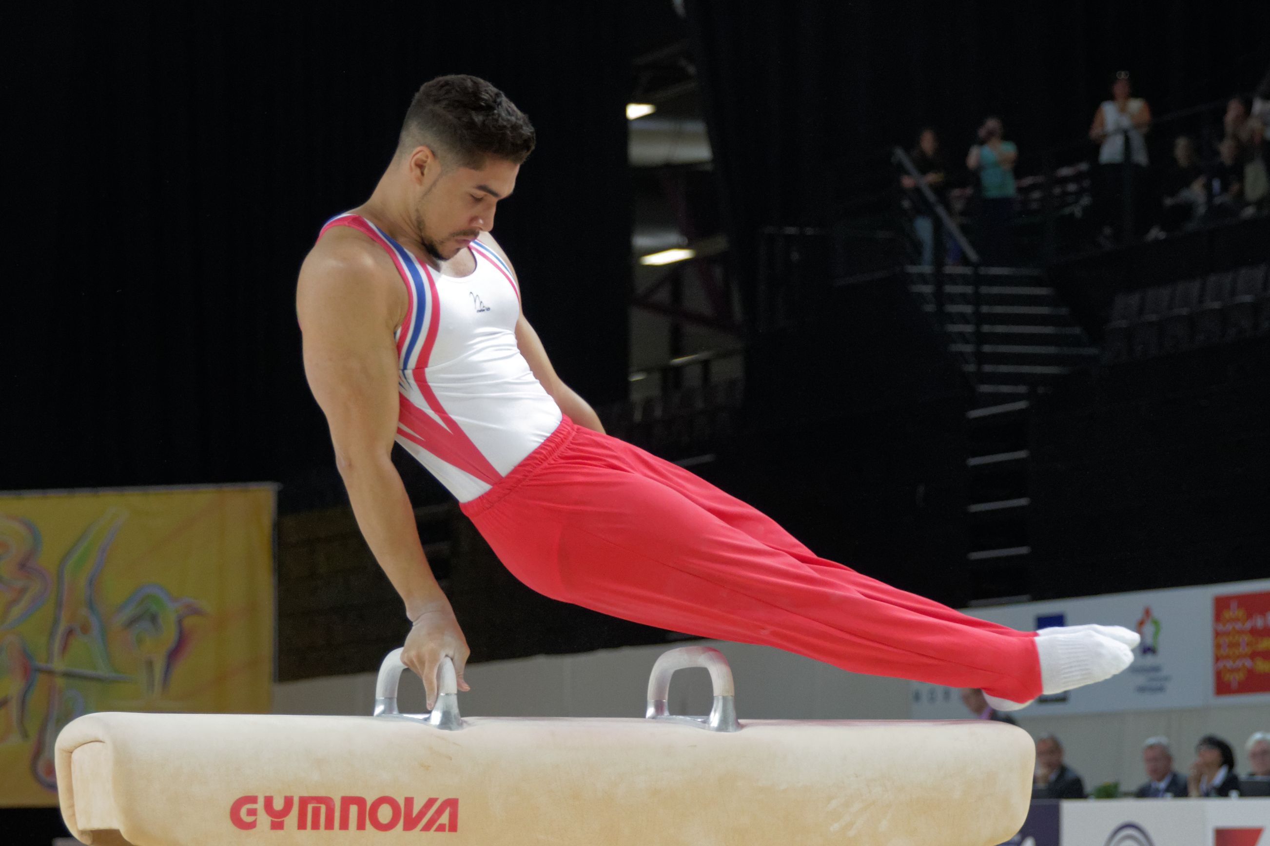 2015 European Artistic Gymnastics Championships. Pommel horse.